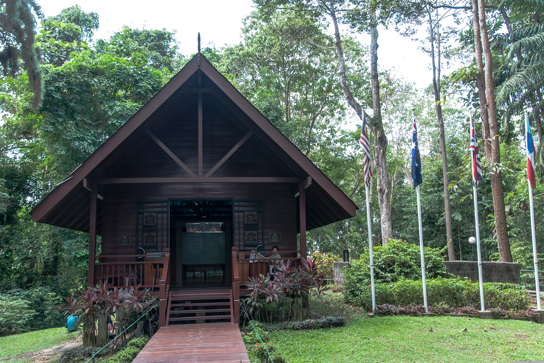 Sandakan Memorial Park; Pavillon